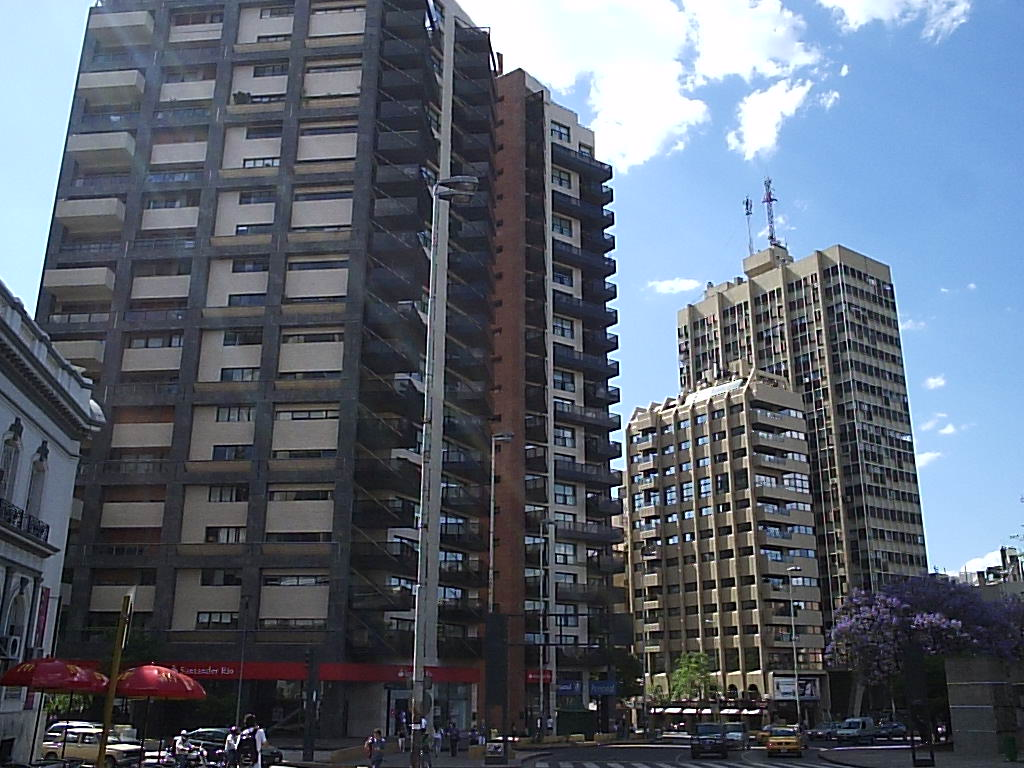 Nueva Cordoba neighborhood. Cordoba, Argentina.